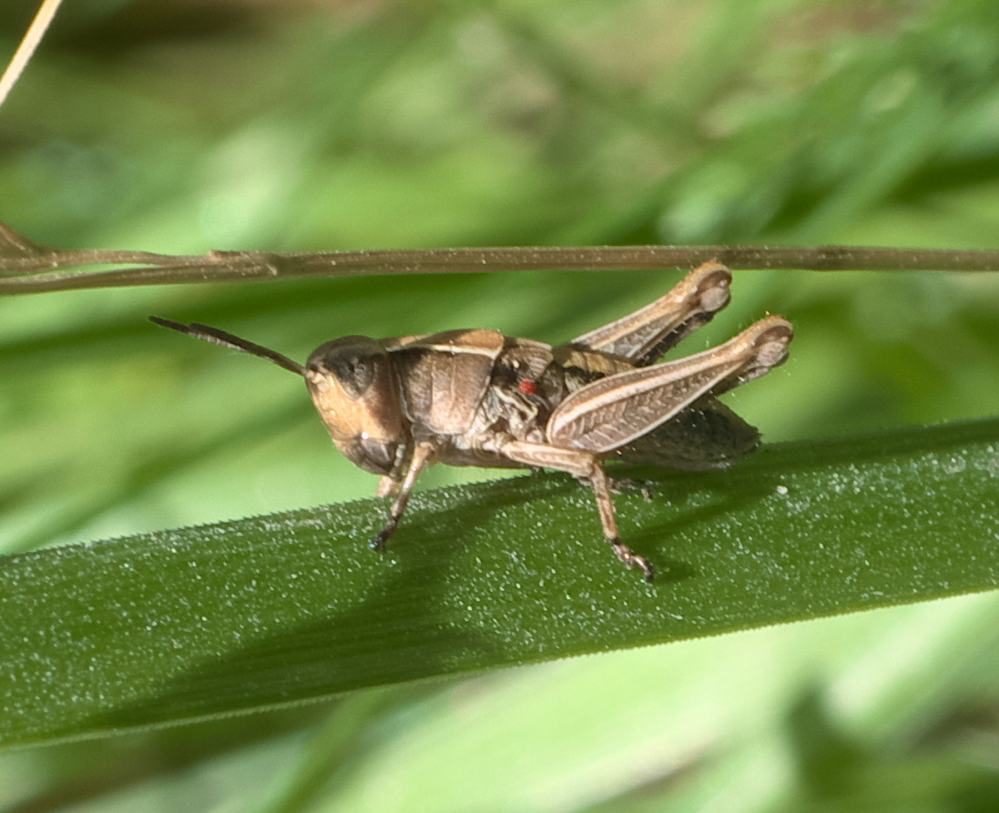 Phaulacridium marginale, new Zealand grasshopper, ID Confidence: 84